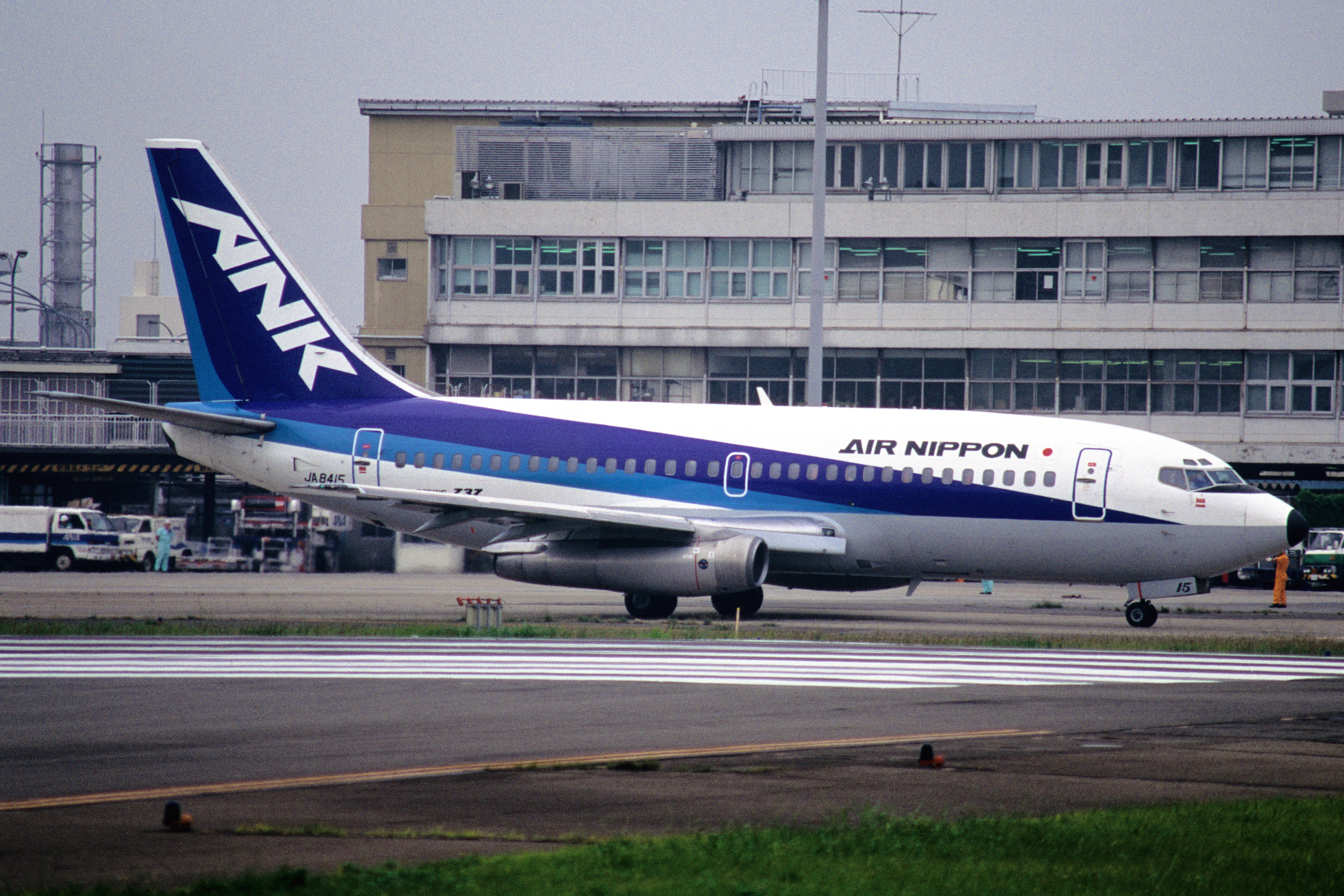 Historic Photo